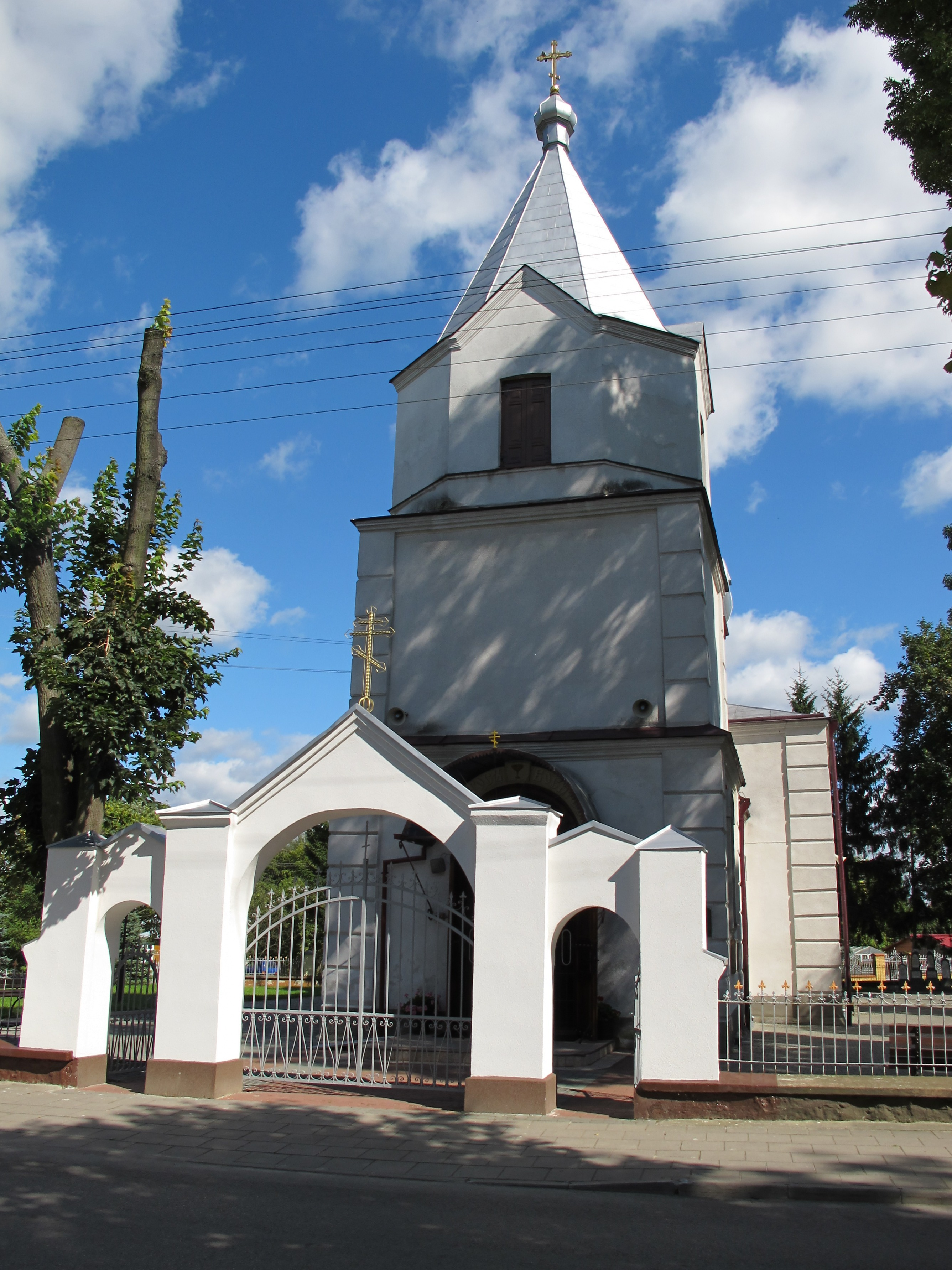 Lord's Resurrection orthodox church by Traugutta 3 street in Bielsk Podlaski, gmina Bielsk Podlaski, podlaskie, Poland.